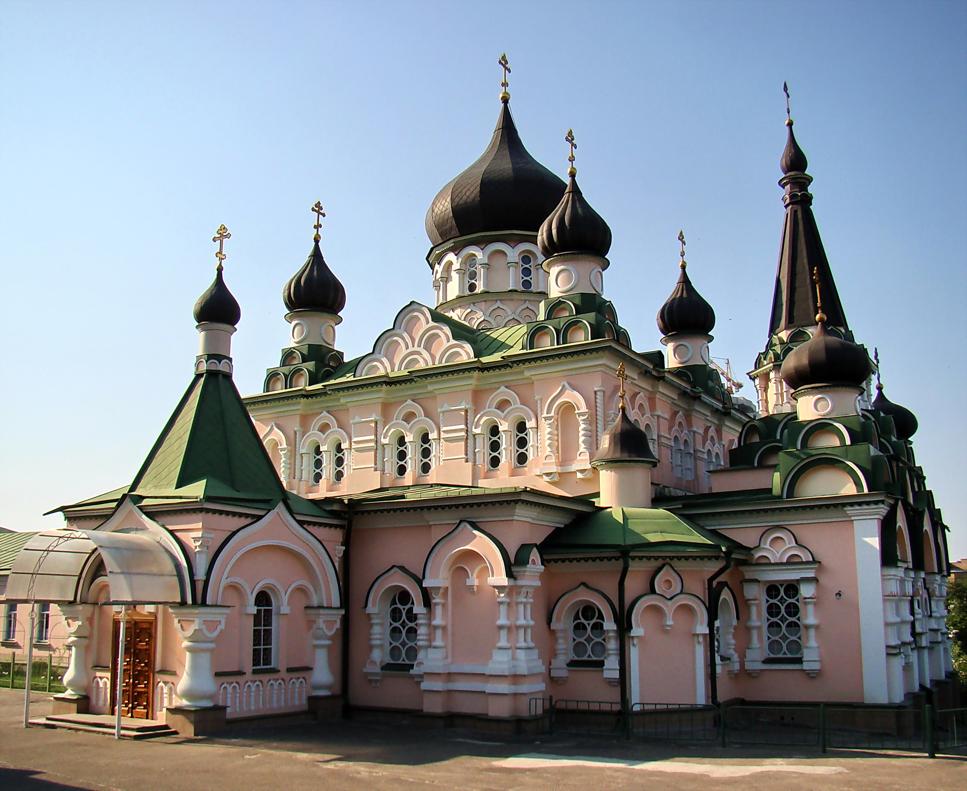 The Church of the Intercession of the Holy Virgin in the Pokrov Monastery (Kiev, Ukraine)